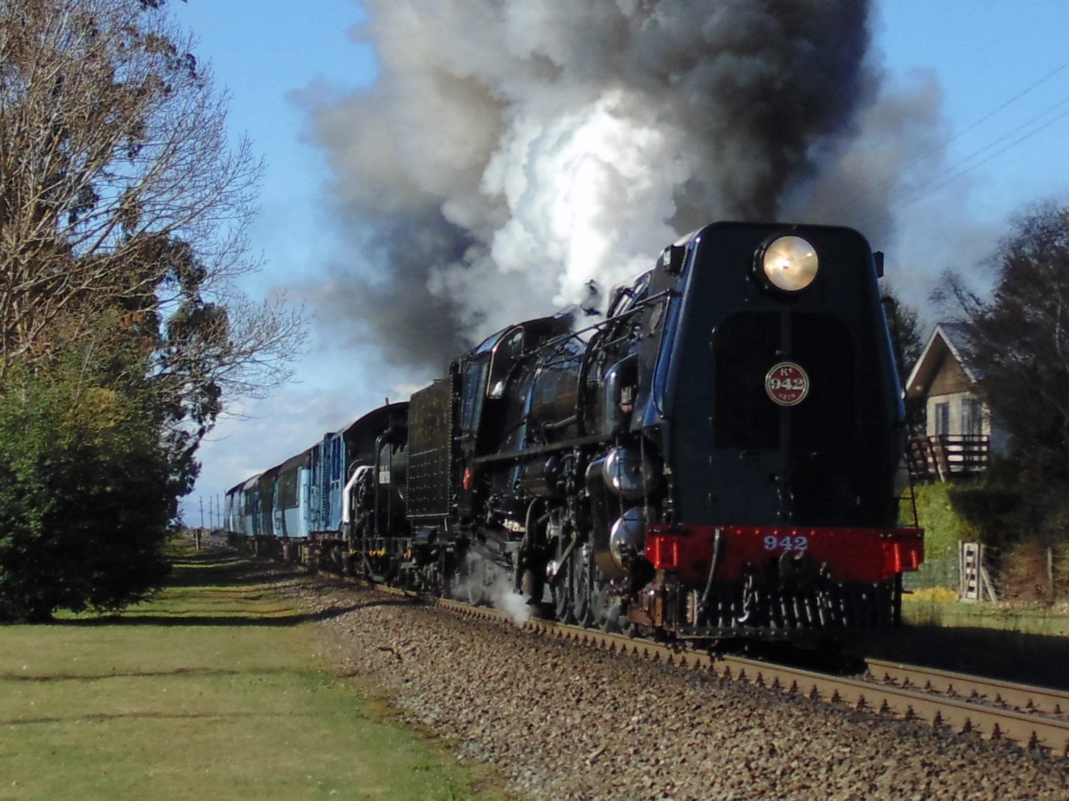 TrainboyMBH